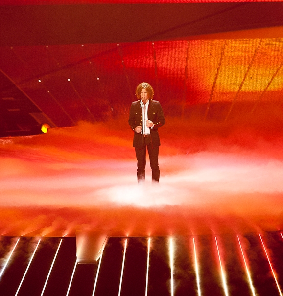 Amaury Vassili from France performing "Sognu" at Eurovision Song Contest 2011 in Düsseldorf.